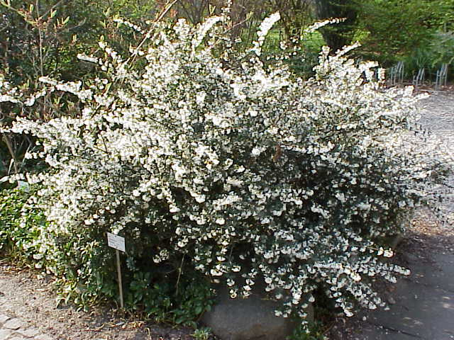 Species: Osmanthus delavayi Family: Oleaceae Image No. 3